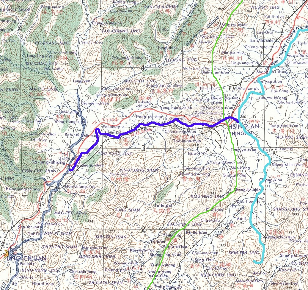 The flow of Lingqu Canal, connecting rivers Xiang and Gui, built 3rd century BC; northbound Xiang R. marked pale blue; Lingqu Canal and Li R. - navy blue; southbound Gui R. on the left, unmarked; Yangtze and Xijiang basin water division (approx.) - thin green line.